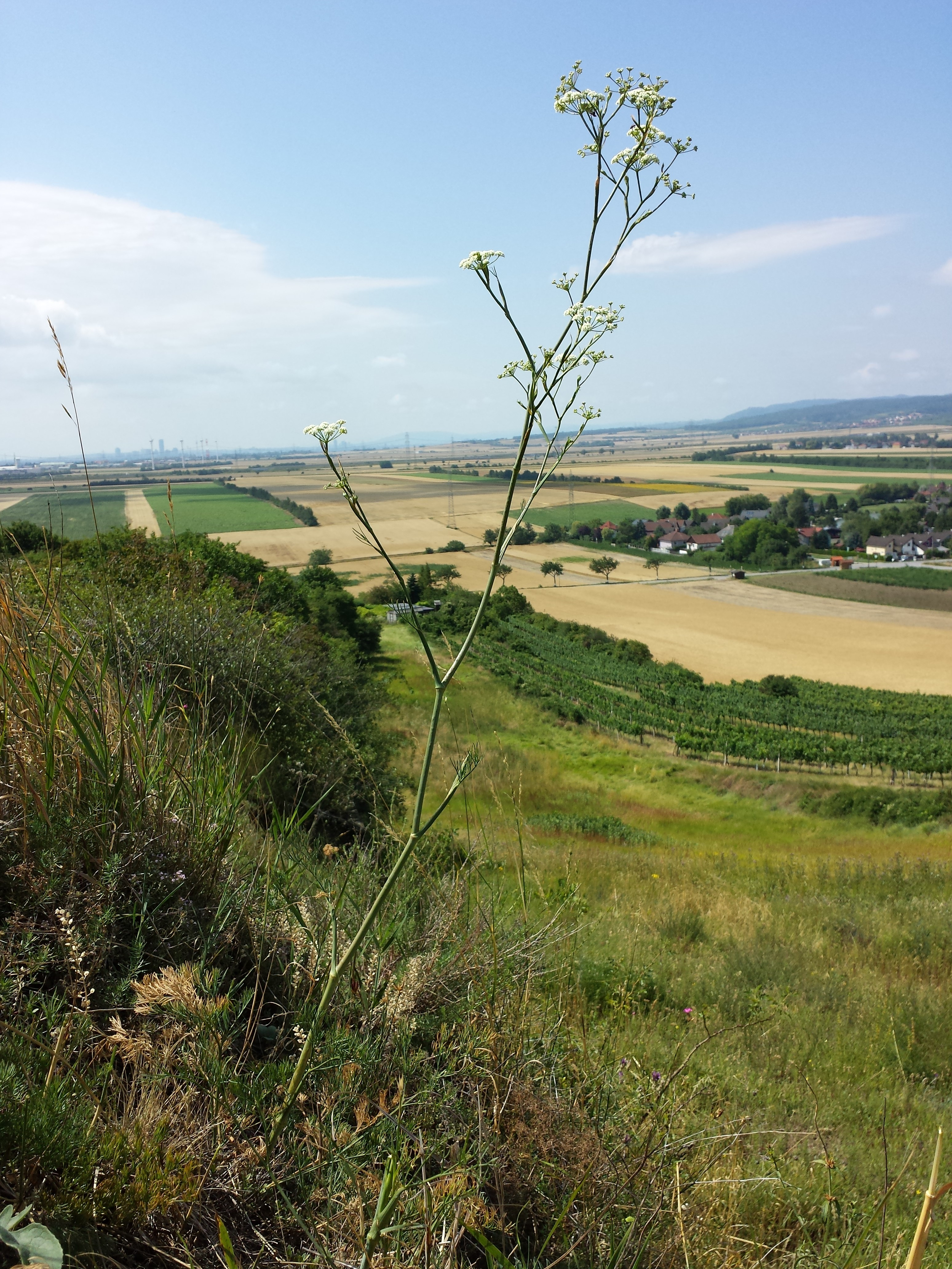 Habitus Taxon: Seseli pallasii (sensu Fischer et al. EfÖLS 2008 ISBN 978-3-85474-187-9) Location: Loess hill to the west of Großebersdorf, district Mistelbach, Lower Austria - ca. 220 m a.s.l. Habitat: dry grassland on Loess